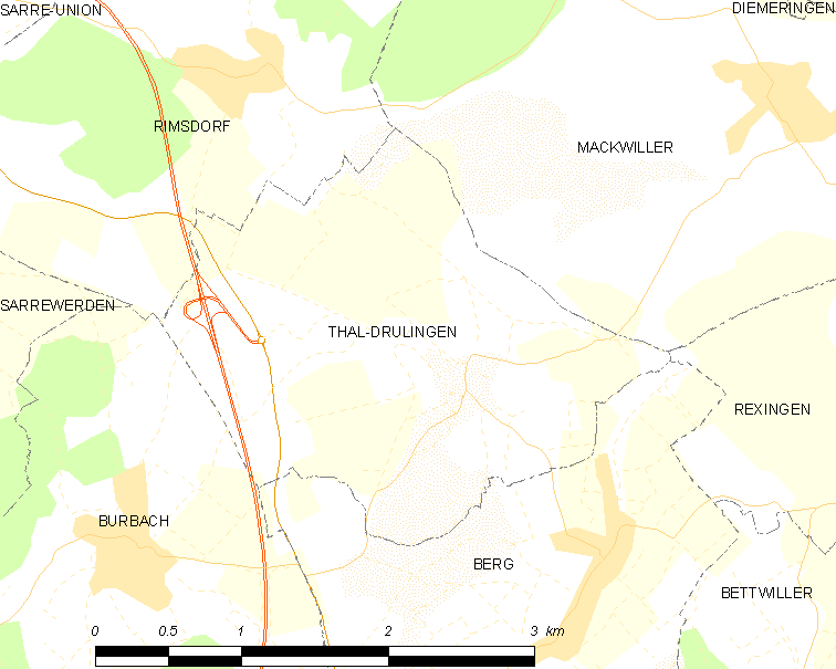 Map of French municipality